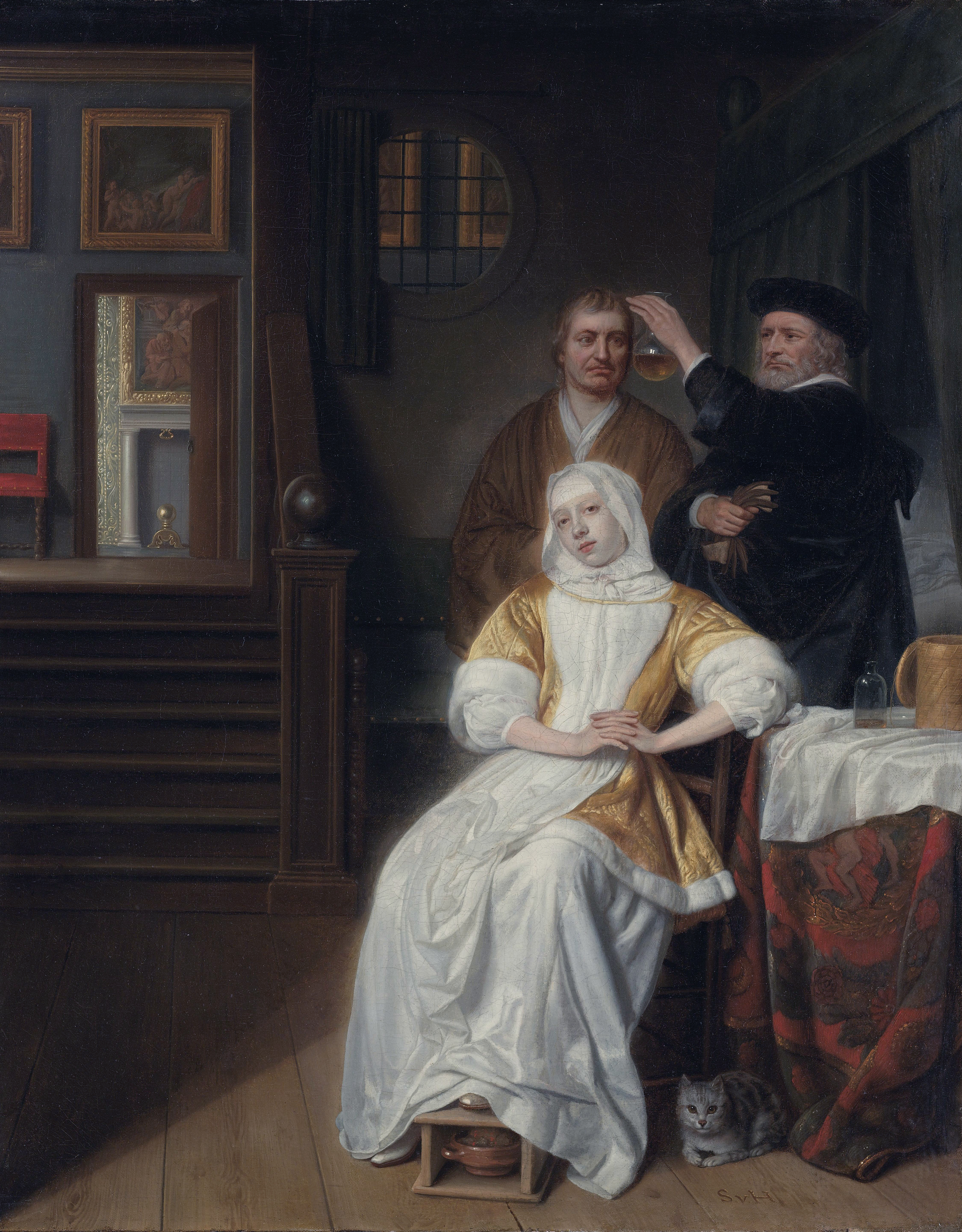 "The anaemic lady. Interior with a sick young woman sitting on a chair next to a table for a bedstead. Under her feet she has a stove, right under a cat. Behind the woman doctor holding a swirling with urine to the light, next to him is a man. Left a staircase leads to other rooms, above the door hangs a painting. In the back room a fireplace with a mantle piece.